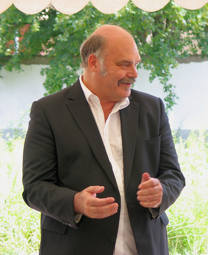 Engelbert Schramm from the ISOE talking about the research project netWORKS 3 during a Ground breaking ceremony in Frankfurt am Main.